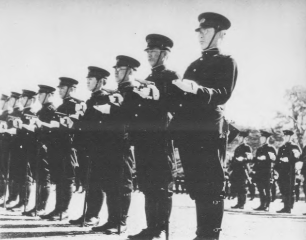 The Emergency Service Unit of the Tokyo Metropolitan Police Department.